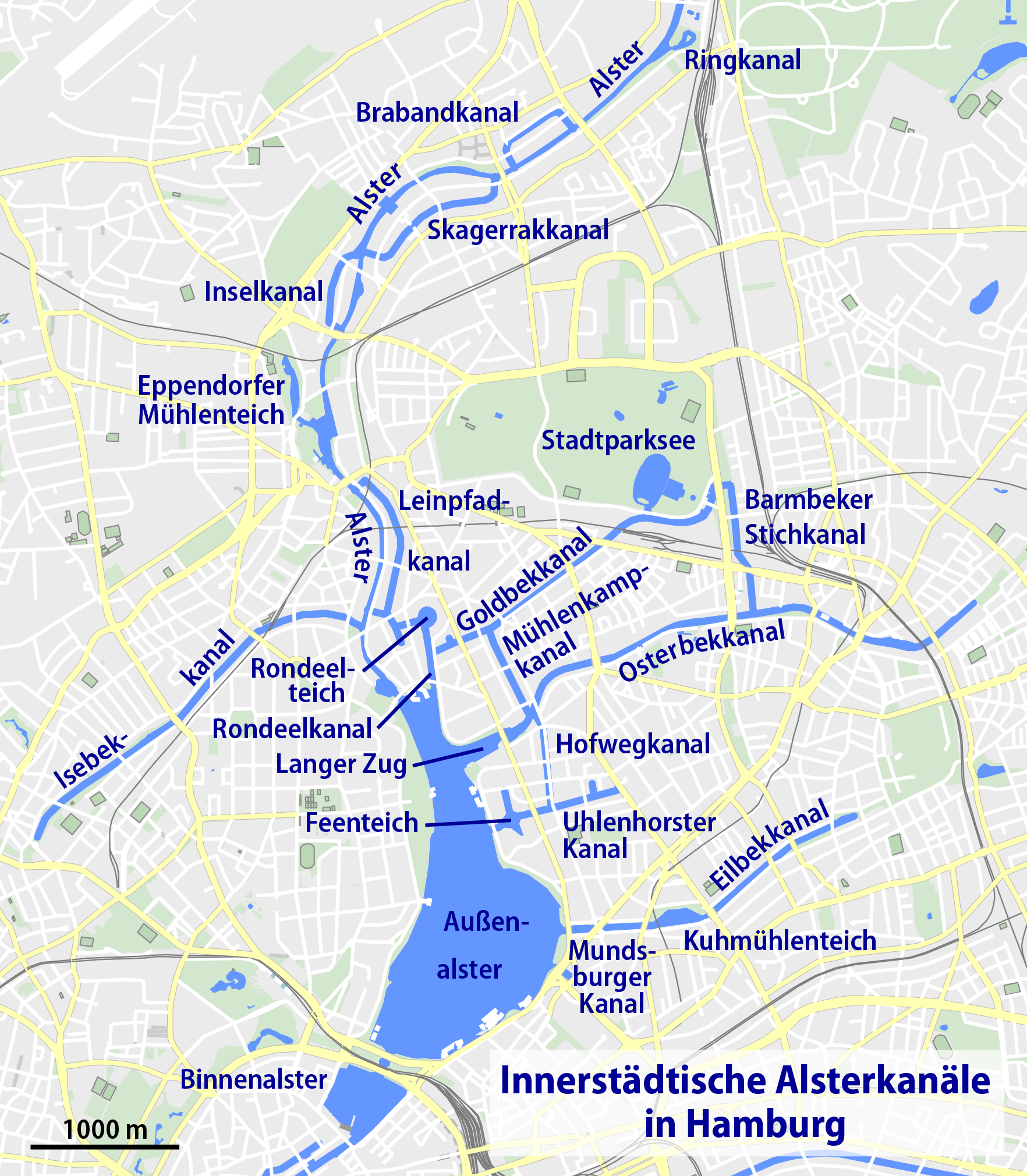 Map of canals in Hamburg This map may be incomplete, and may contain errors. Don't rely solely on it for navigation.